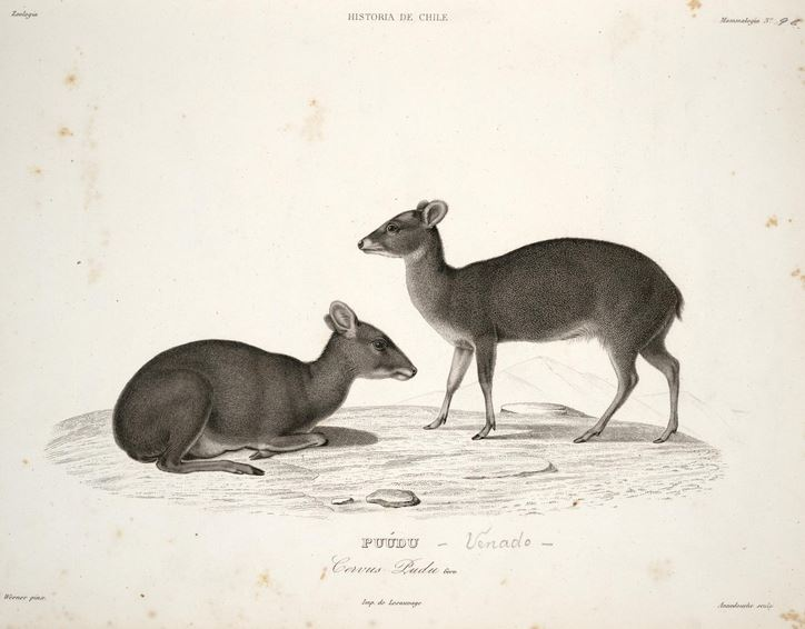 Pudu puda = Cervus pudu